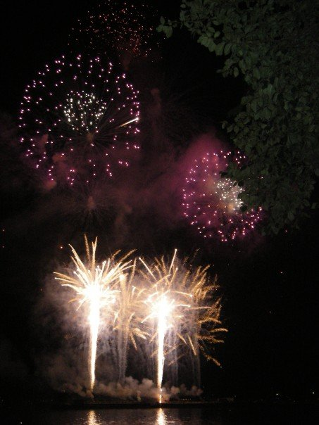 China's presentation at the 2008 HSBC Celebration of Light in Vancouver. Photo taken July 30th, 2008, from Kitsilano Beach.